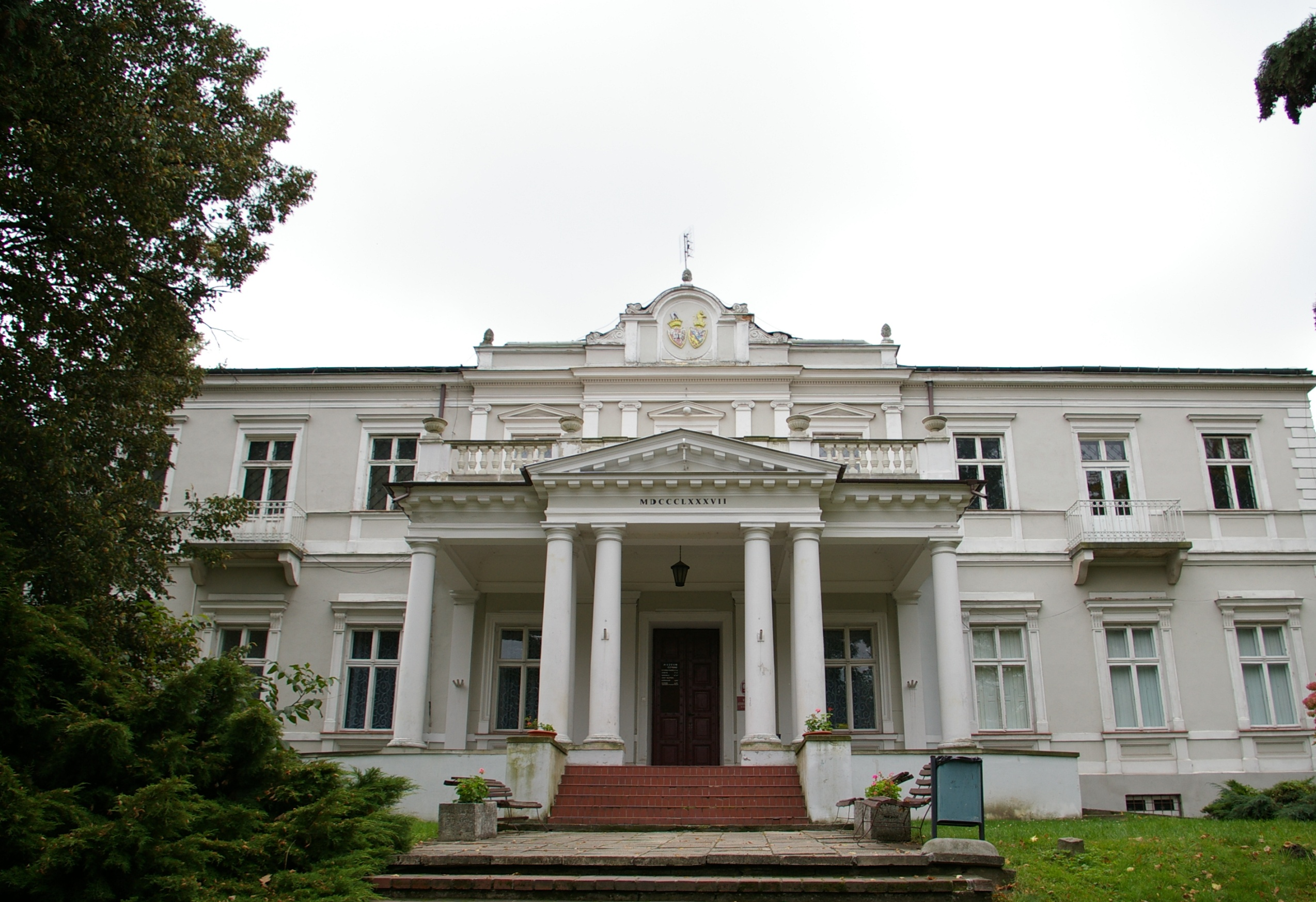 Museum in Ostrowiec Świętokrzyski